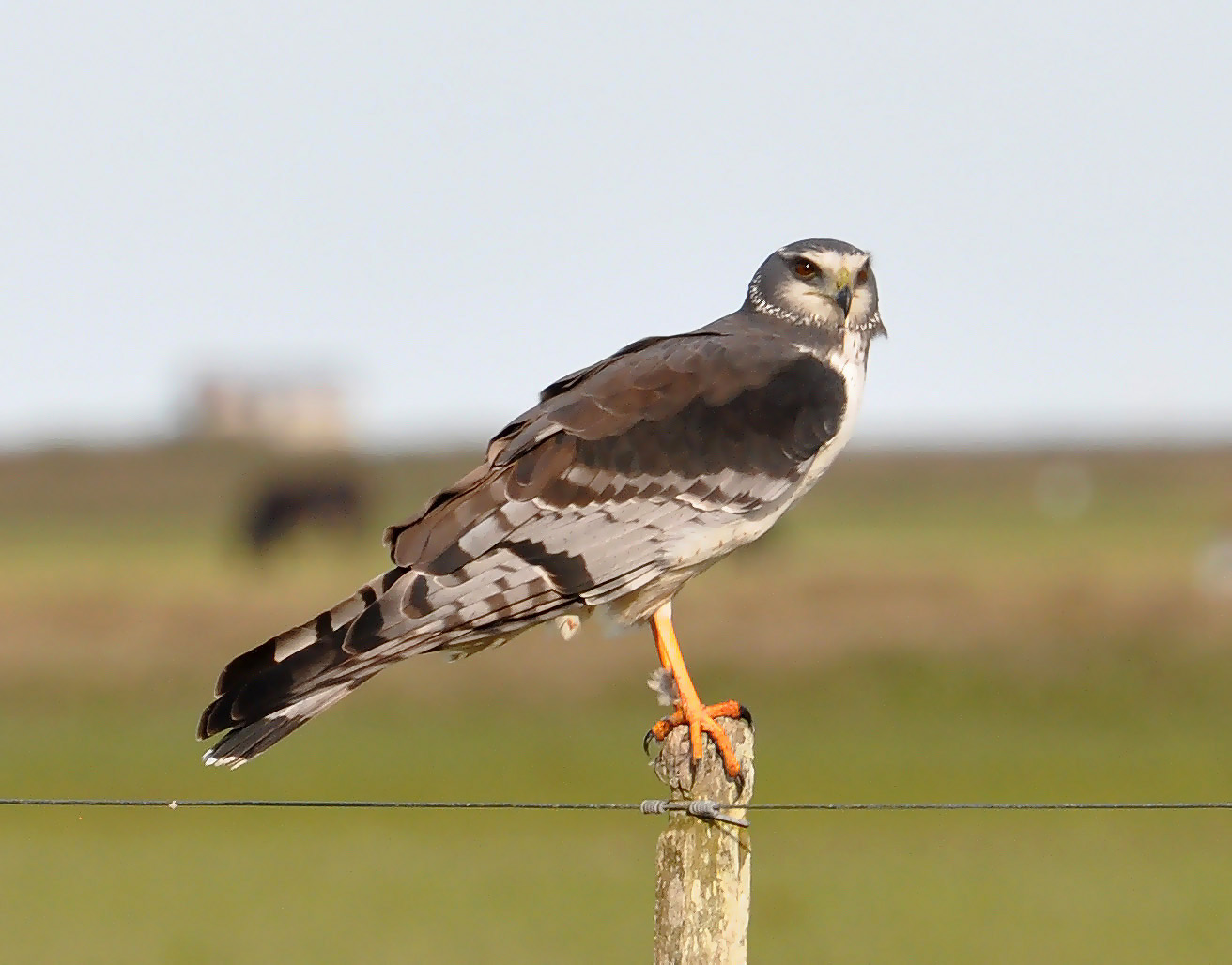 Male Long-winged Harrier (Circus buffoni), pale morph. Photographed in Rio Grande do Sul, Brazil, August 2010.